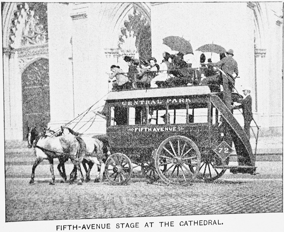 An Omnibus of the Fifth Avenue Stage Line, mid 1800s.